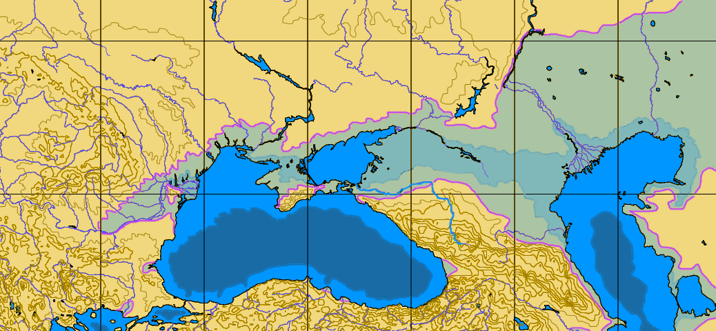 The « Sarmatian » sea : darker blue = deep basins ; marine blue = present Black, Azov & Caspian seas ; light blue = last links during the Atlantic period ; lighter blue = maximal extension during the Eemian period, since Nikolai Ivanovich Andrusov and Jonathan T. Overpeck, Bette L. Otto-Bliesner, Gifford H. Miller, Daniel R. Muhs, Richard B. Alley, Jeffrey T. Kiehl, « Paleoclimatic Evidence for Future Ice-Sheet Instability and Rapid Sea-Level Rise », Science no 311, 24 mars 2006.